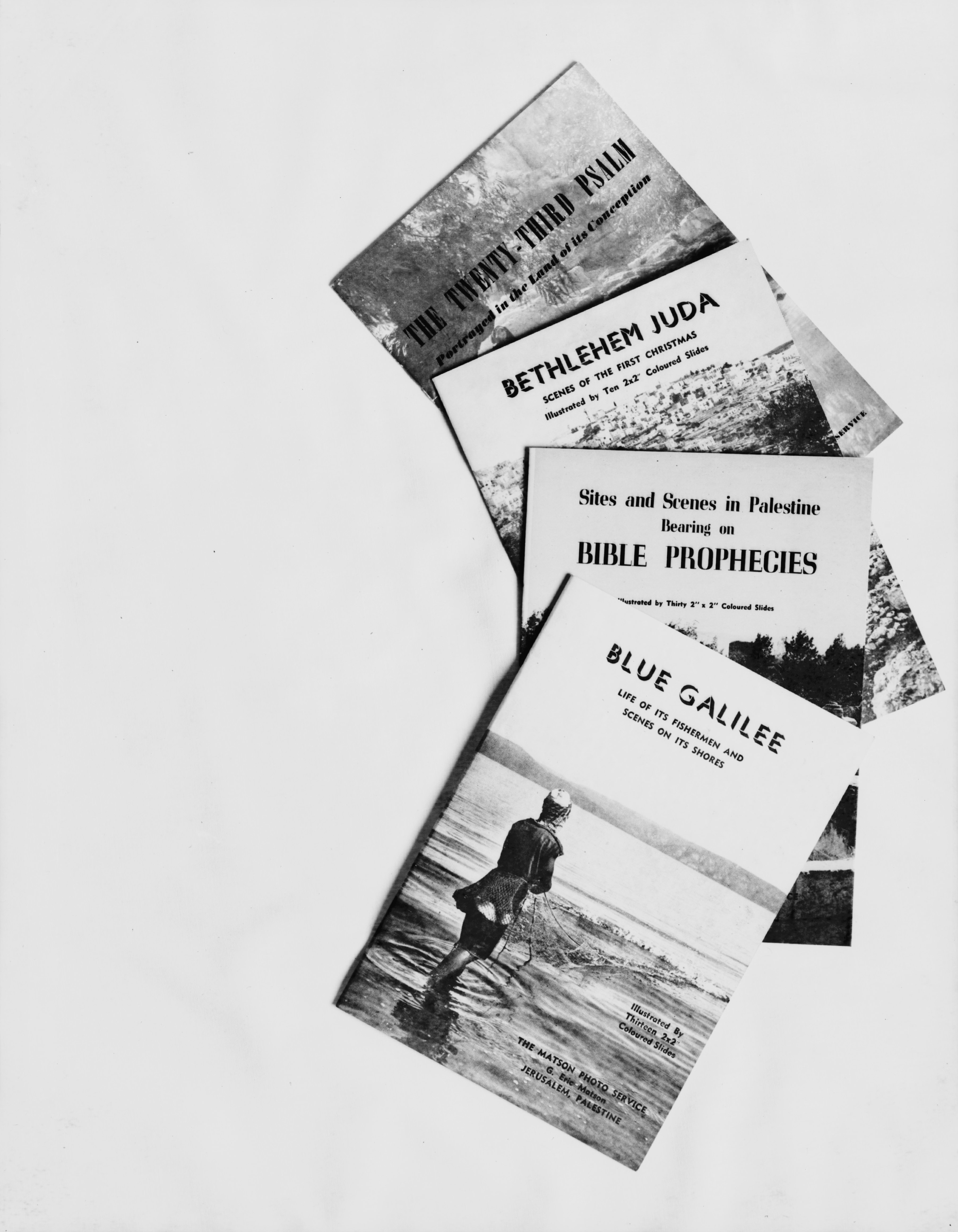 Title: Advertising film for cut made for audio visual resource guide, Dec. 20, 1955 Abstract/medium: G. Eric and Edith Matson Photograph Collection Physical description: 1 negative